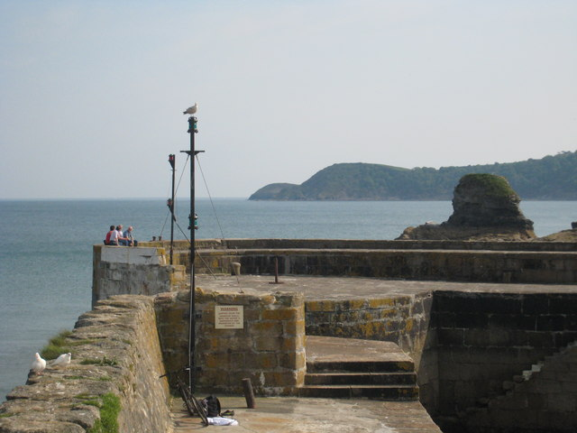 Entrance to Charlestown Harbour